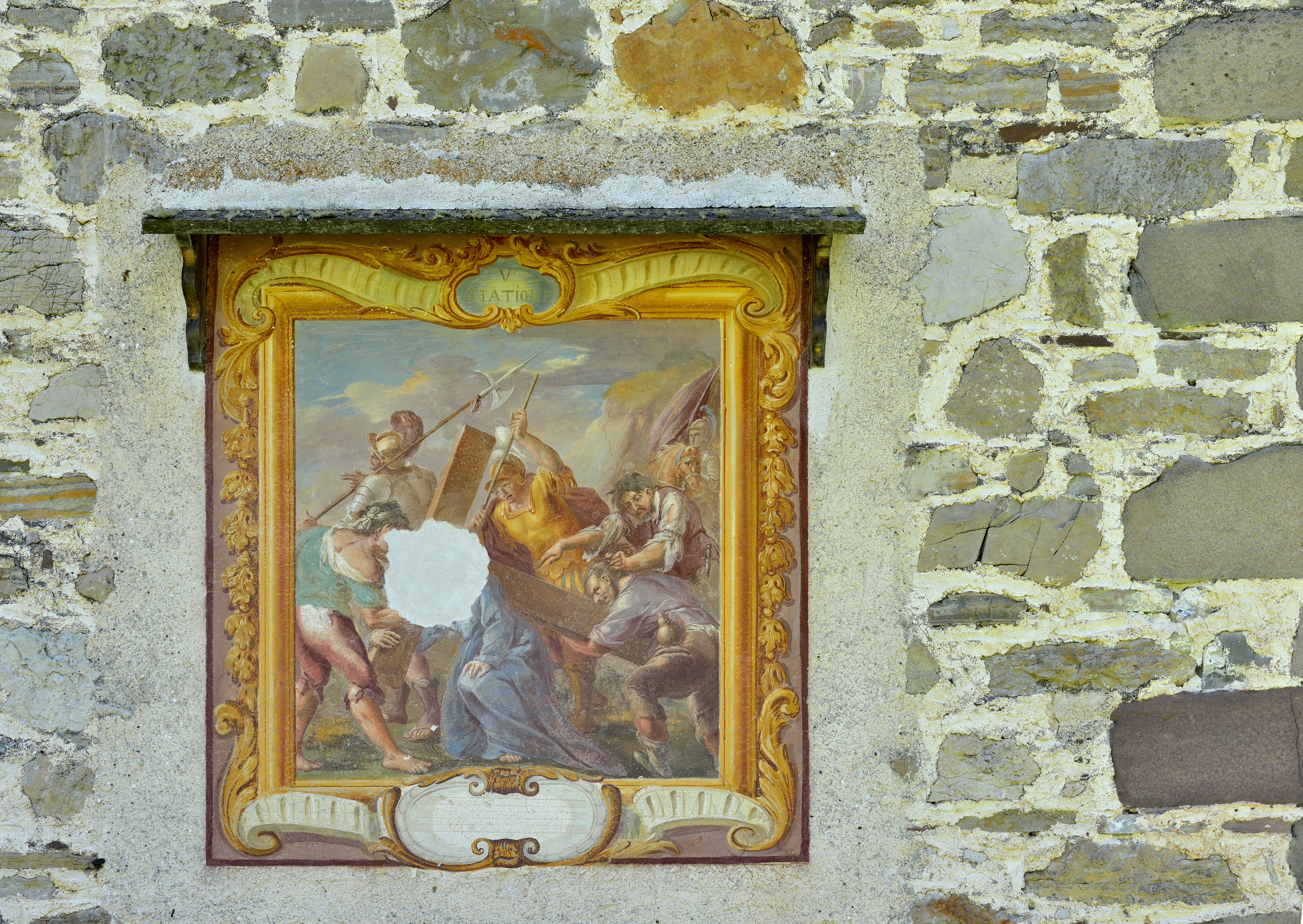 Old parish church in La Val - demolished partially in 1930